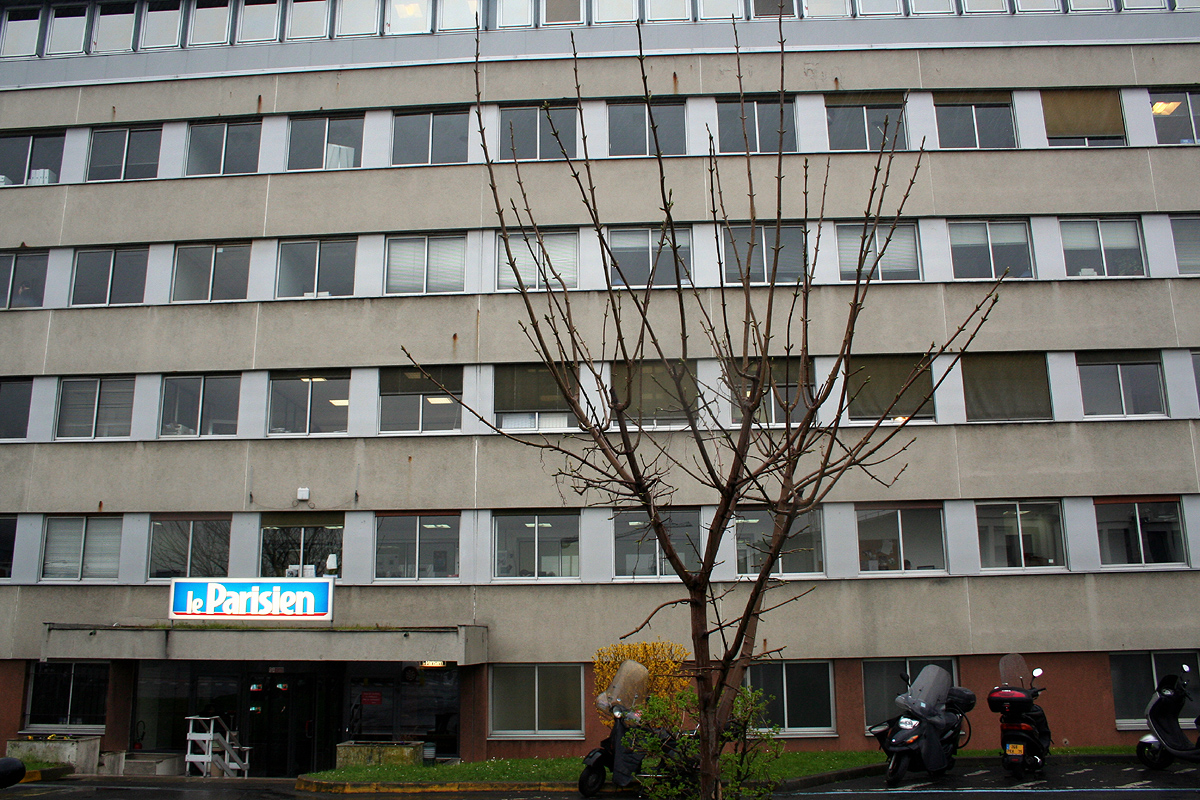 "Le Parisien" (daily newspaper) building in Saint-Ouen, near Paris